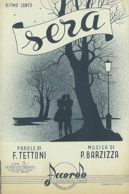 Cover "Sera". The Publishing Accordo are part of Gruppo Editoriale Curci.